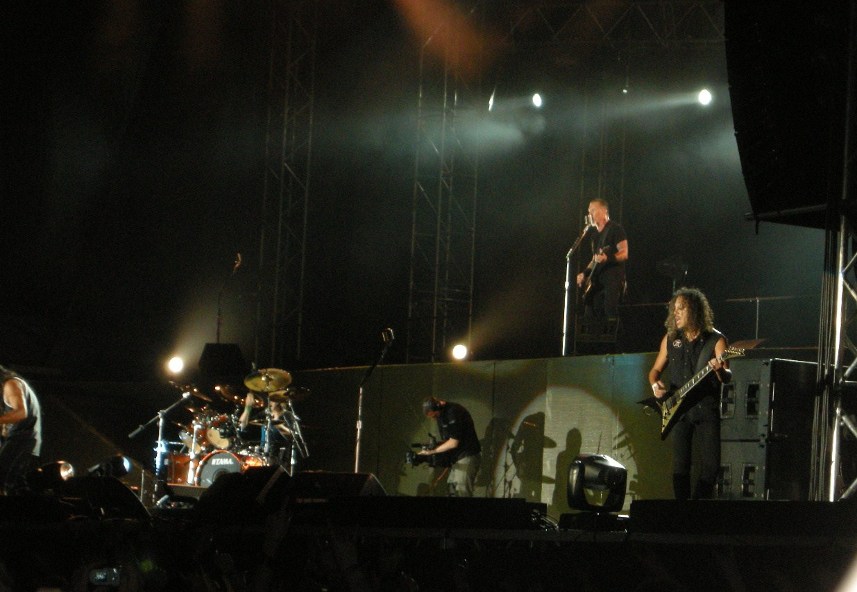 Metallica performing at Sonisphere Sweden 2009, 1